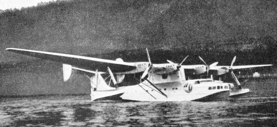 Potez 141 photo from L'Aerophile March 1938